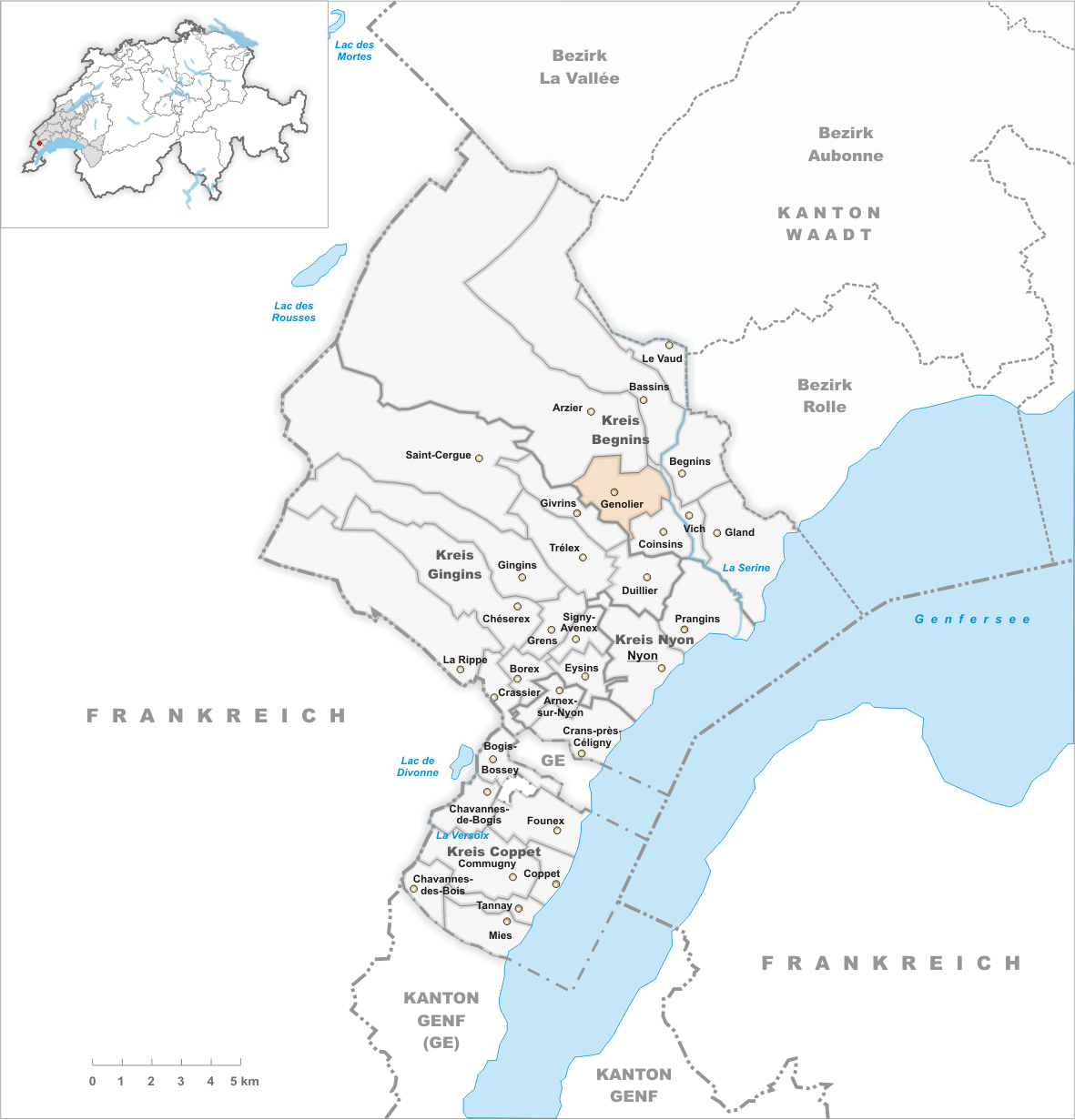 Municipality Genolier